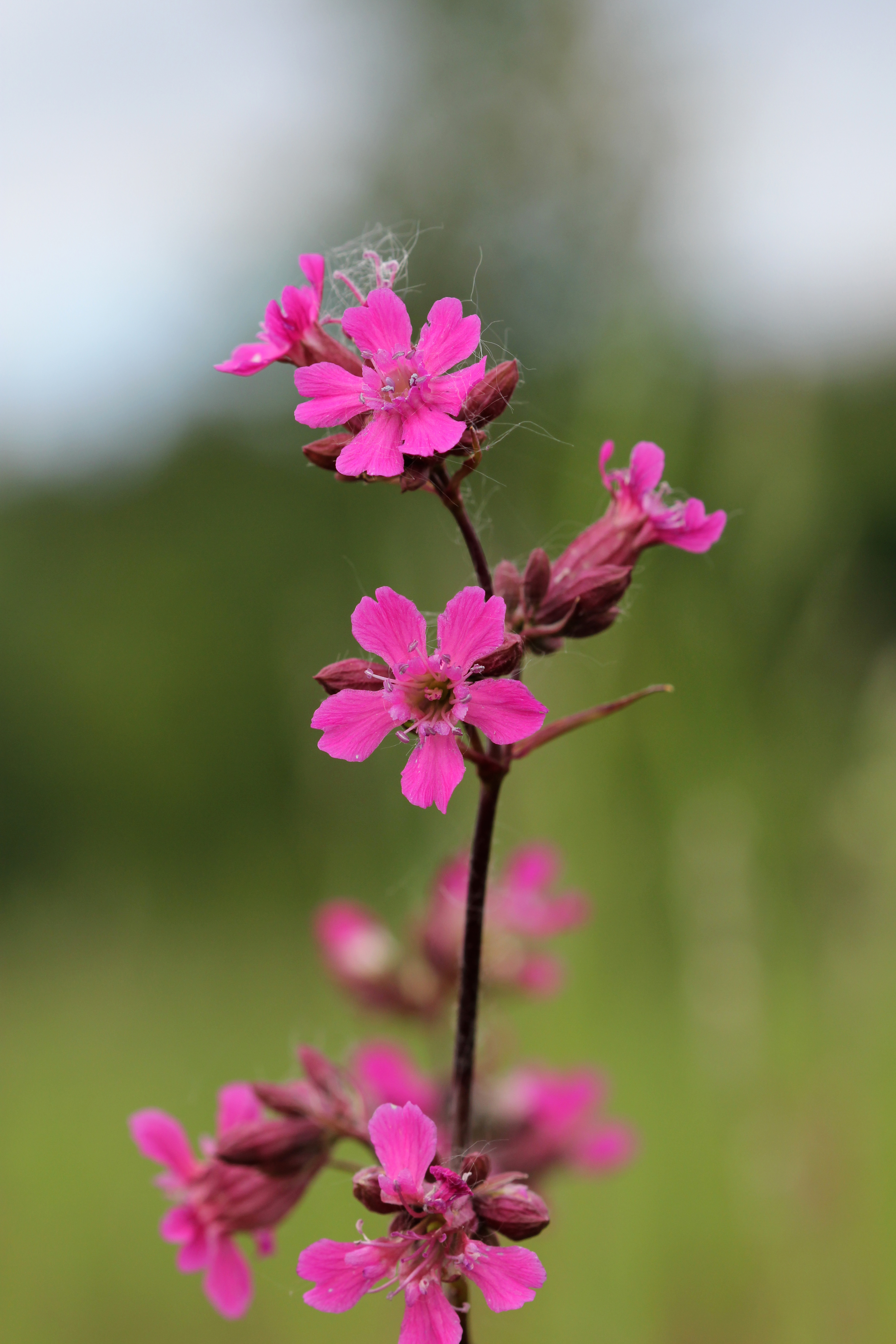 Sticky catchfly. Ukraine.